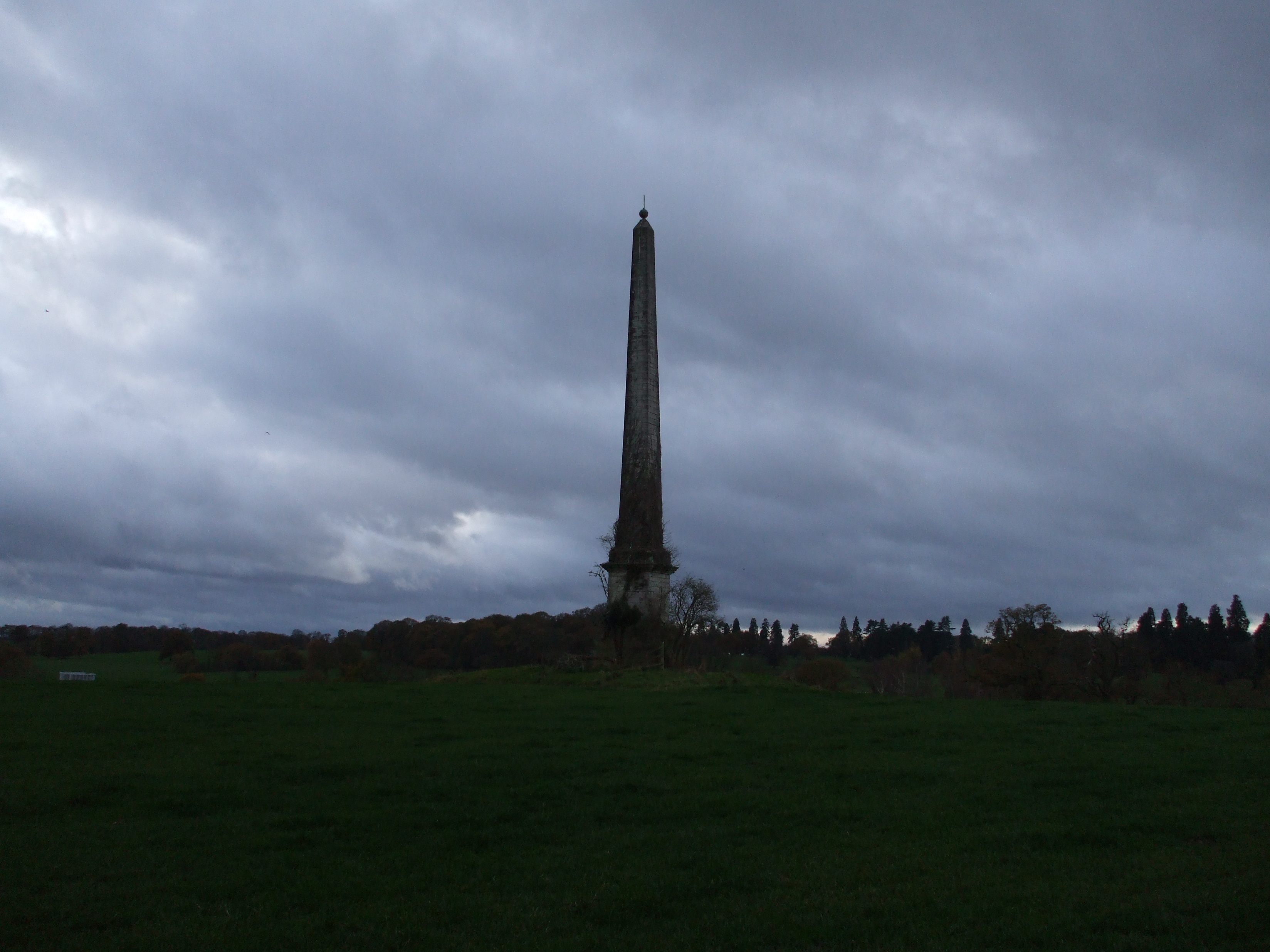 Lord Archers obelisqe Umberslade